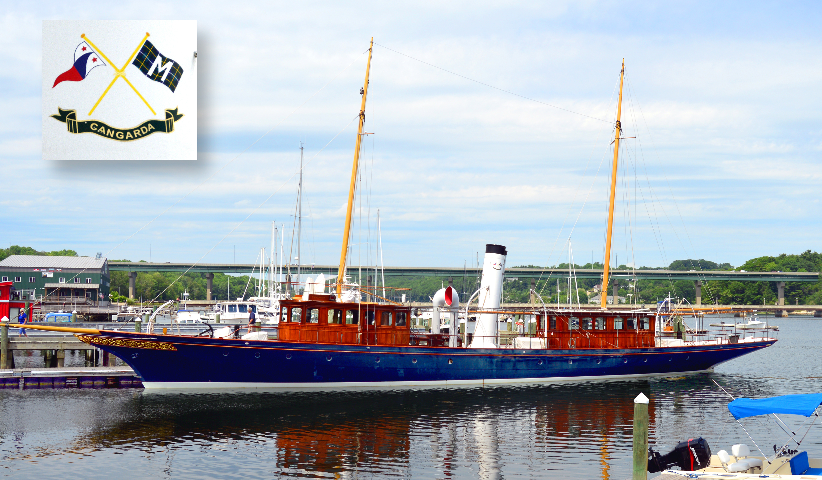 The steam yacht CANGARDA at Belfast, ME (Inset: Name on smoke stack)